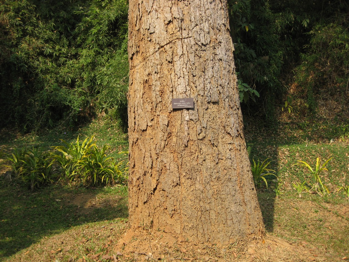 Photographed at the Queen Sirikit Botanic Garden (Chiang Mai Province, Thailand) in March